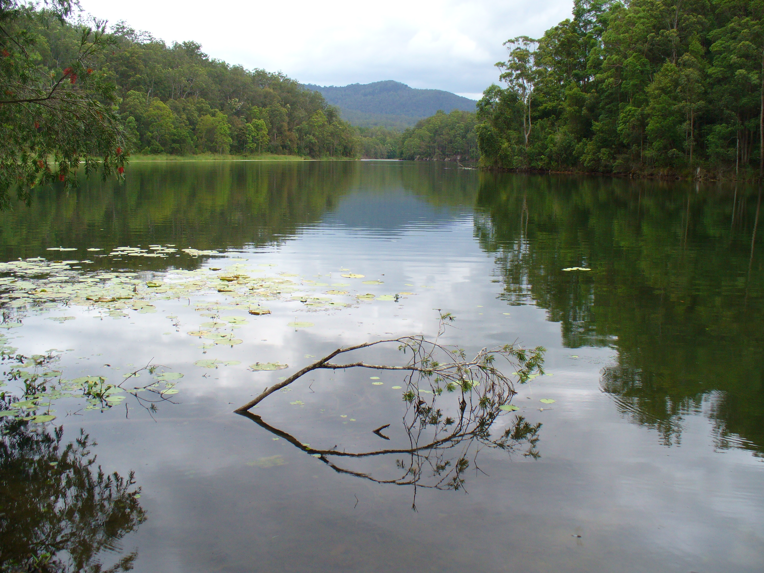 Toonumbar DamToonumbar Dam, Northern Rivers NSW Australia. Image contributed by Ayesha Joy Clifford.